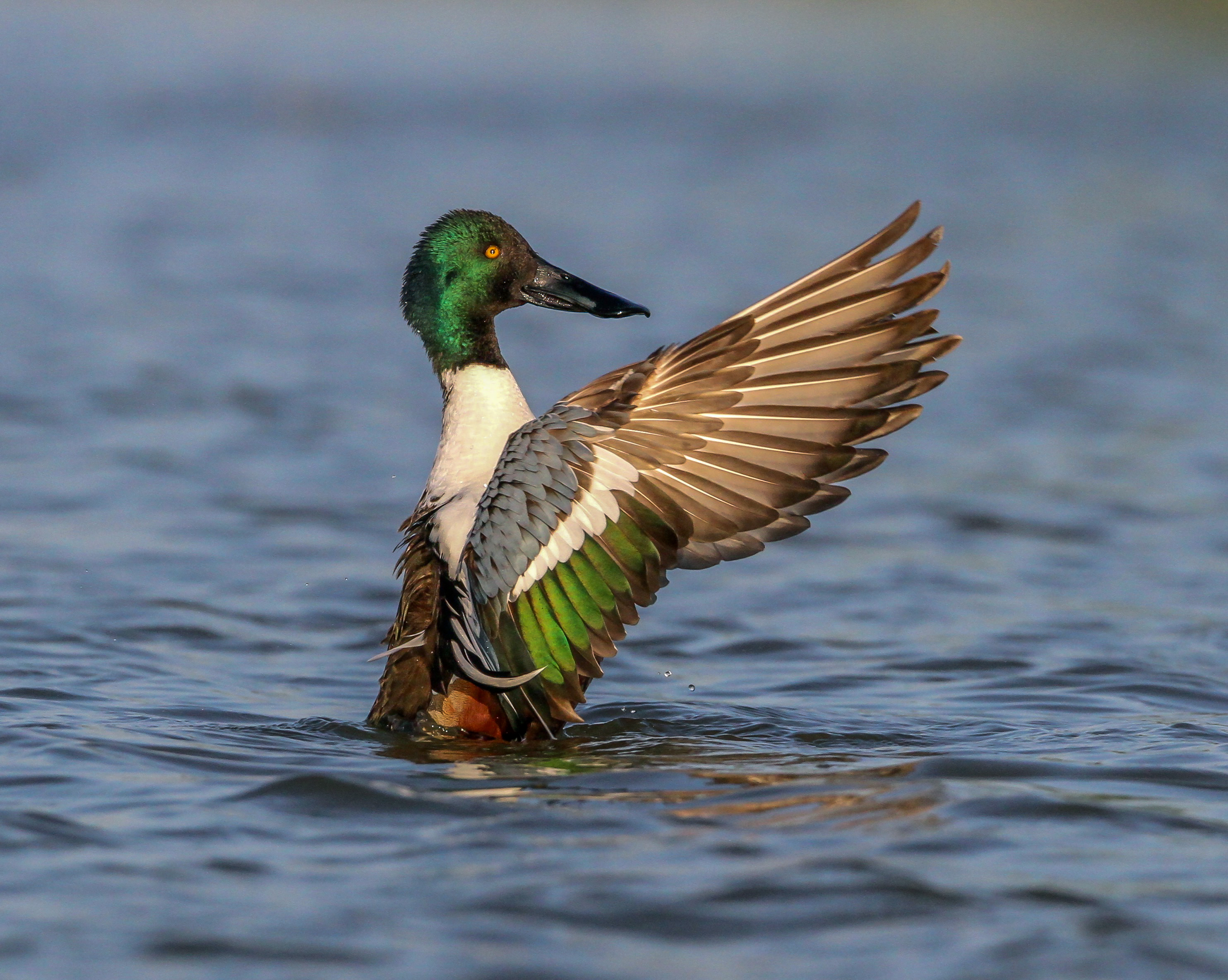 Male northern shoveler (Anas clypeata) -- Steve Sinclair